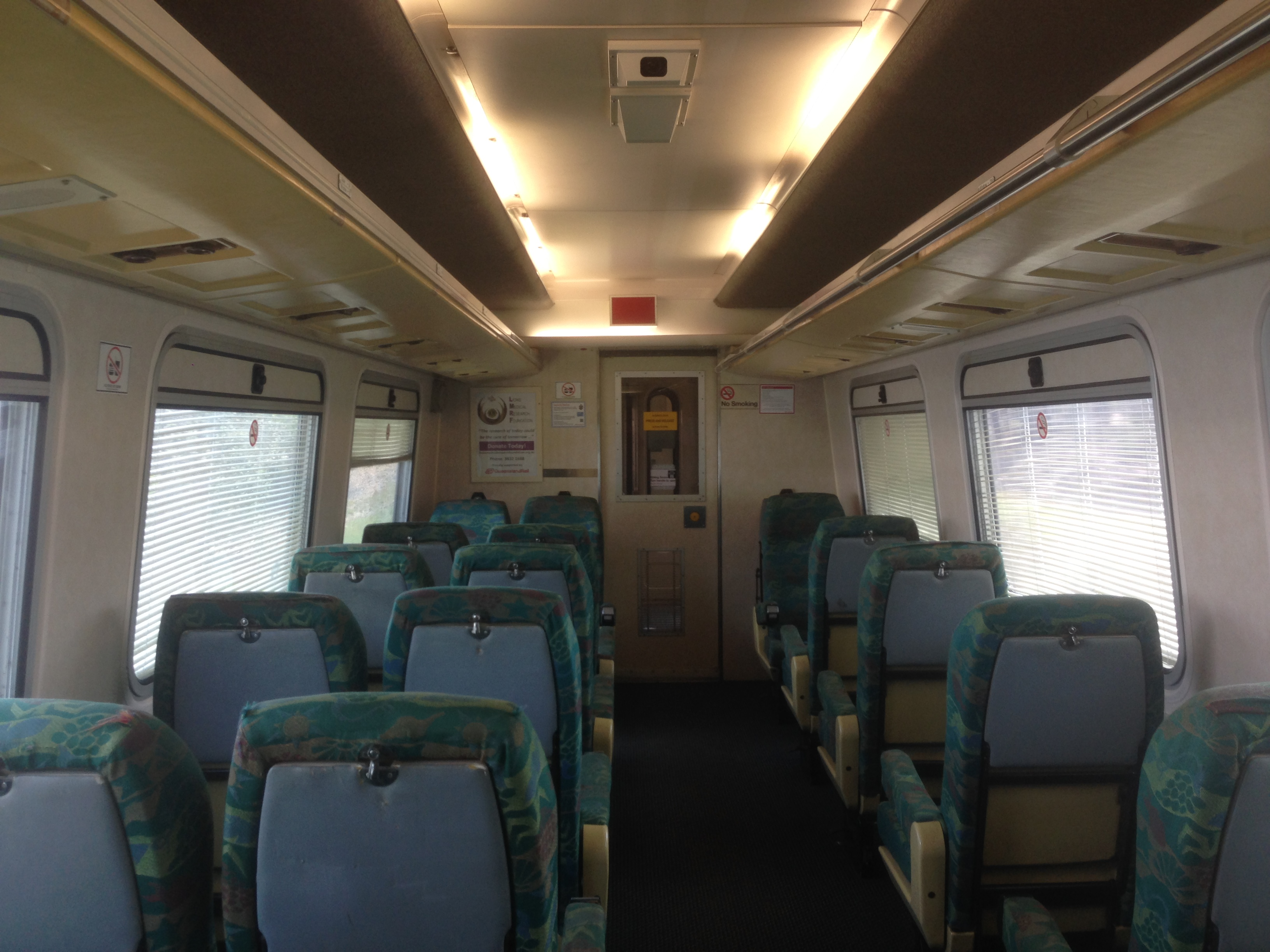 Interior of an InterCity Express train, October 2017